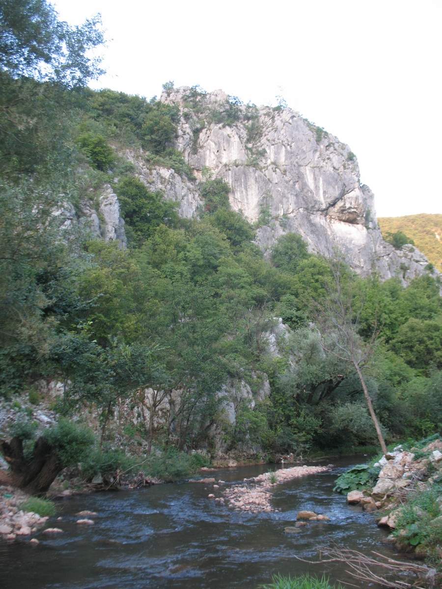 Crnica river gorge near Sveti Jovan Glavosek,near Paraćin,Serbia.